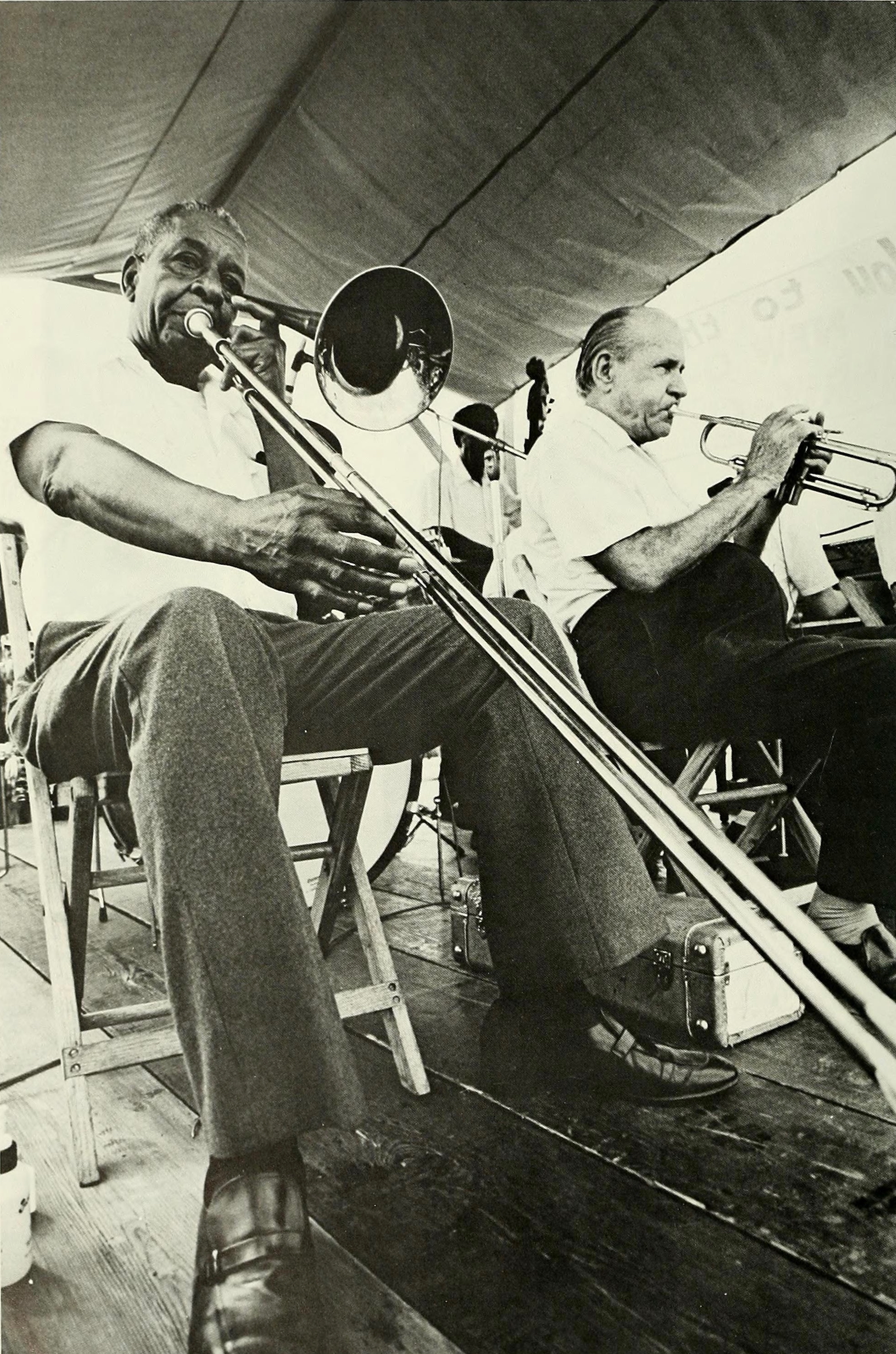 New Orleans Jazz & Heritage Festival 1975. Musicians in jazz band: Preston Jackson, trombone; Tony Fougerat, trumpet. In background is string bass player partially obscured; possibly James Prevost.